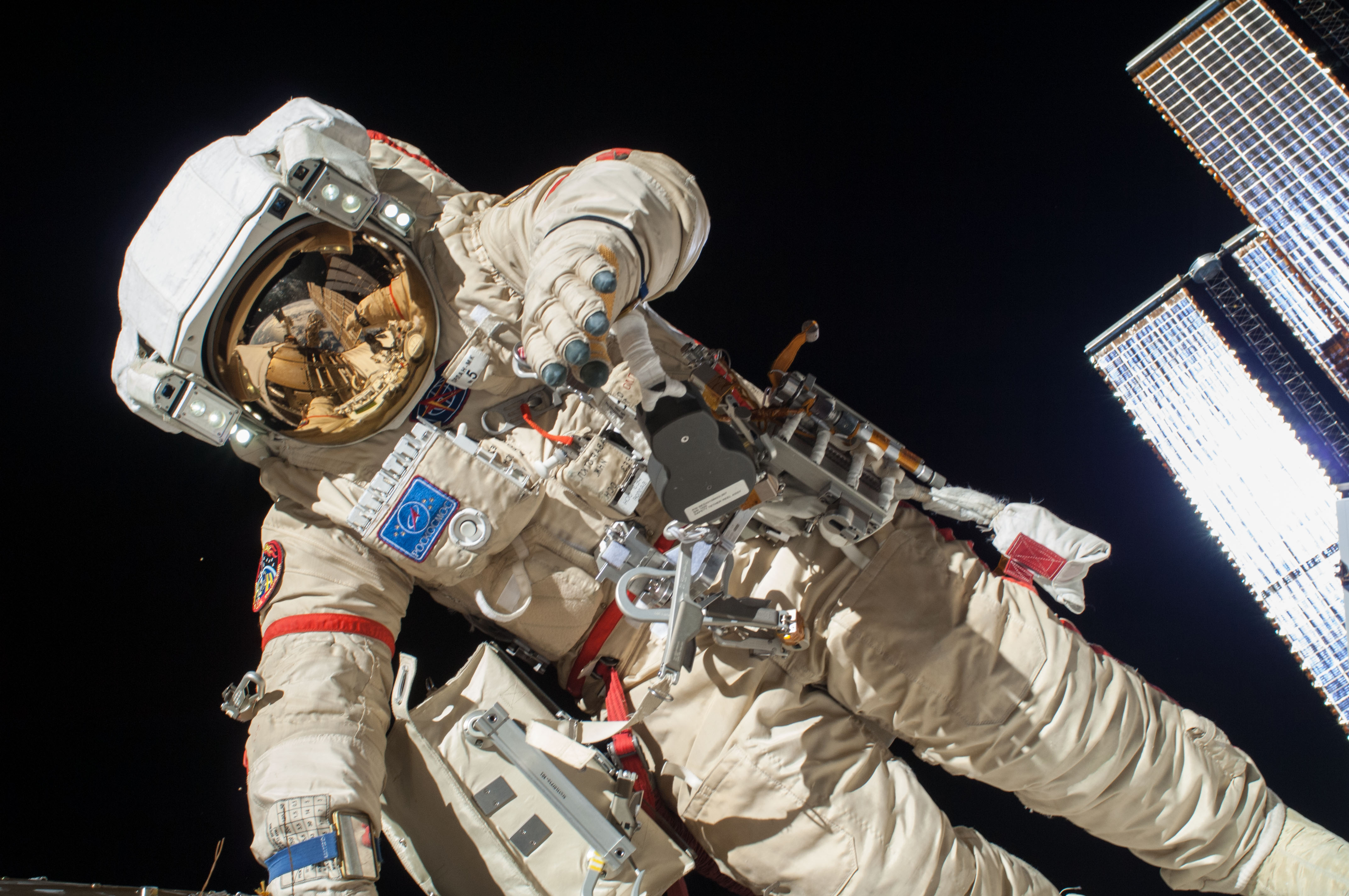 Russian cosmonaut Oleg Kotov, Expedition 37 flight engineer, attired in a Russian Orlan spacesuit, participates in a session of extravehicular activity (EVA) in support of assembly and maintenance on the International Space Station. During the five-hour, 50-minute spacewalk, Kotov and Russian cosmonaut Sergey Ryazanskiy (out of frame) continued the setup of a combination EVA workstation and biaxial pointing platform that was installed during an Expedition 36 spacewalk on Aug. 22.